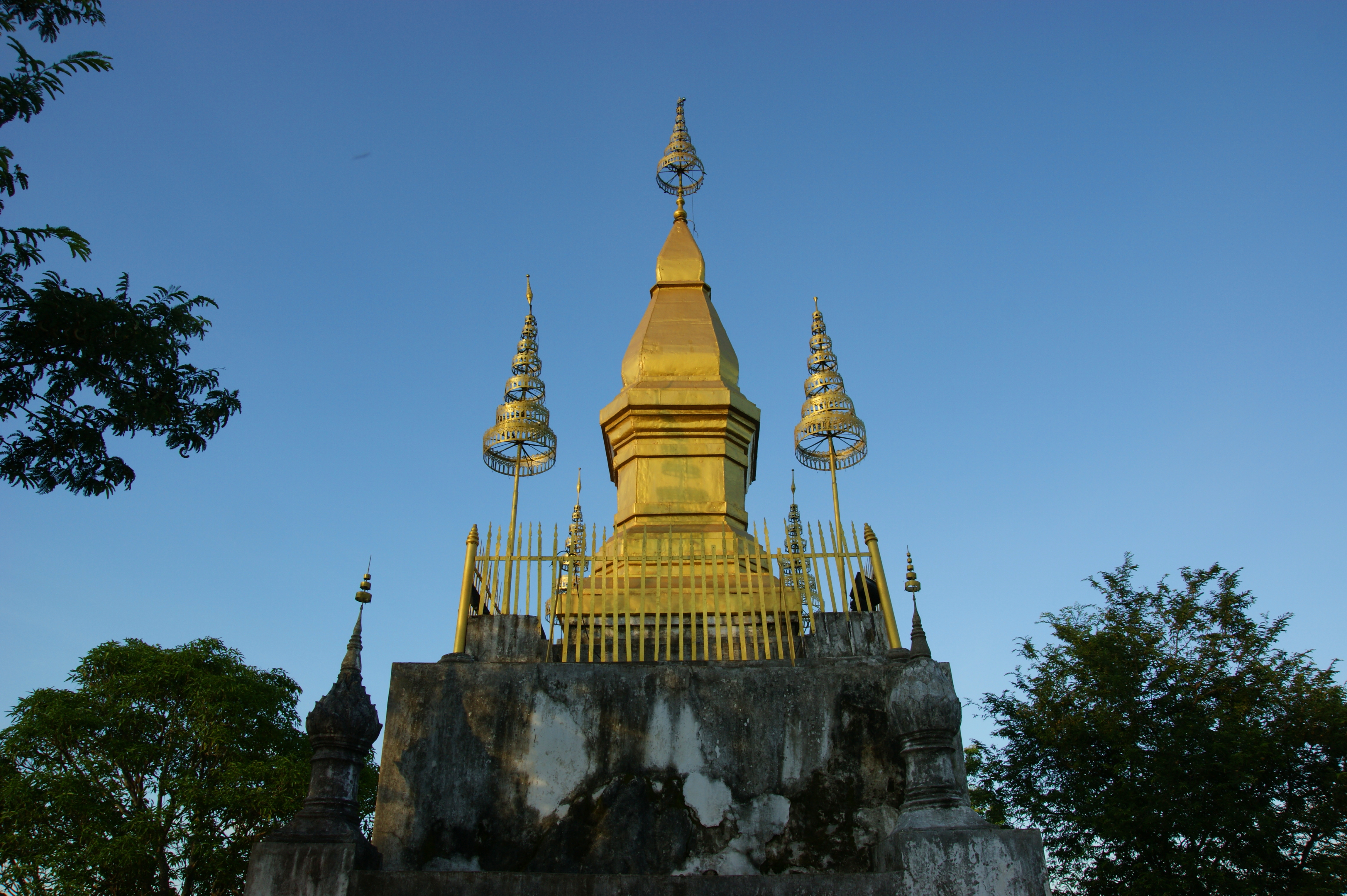 A view of the gilded stupa of the Buddhist Wat Chom Si temple at Luang Prabang in Laos. Wat Chom Si is regarded by Laotians to be one of the most sacred places in Luang Prabang and tourists are often asked to dress decently, avoid making loud noises or engaging in arguments at the summit of Mount Phou si. The Wat Chom Si temple sits atop Mount Phou si and enjoys spectacular views of Luang Prabang. The temple was built in 1804 and Wat Chom Si's gold spired stupa can be seen from most parts of Luang Prabang below.